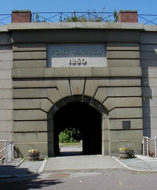 The sally port of Fort Warren, Boston, Mass. taken from inside the fort.